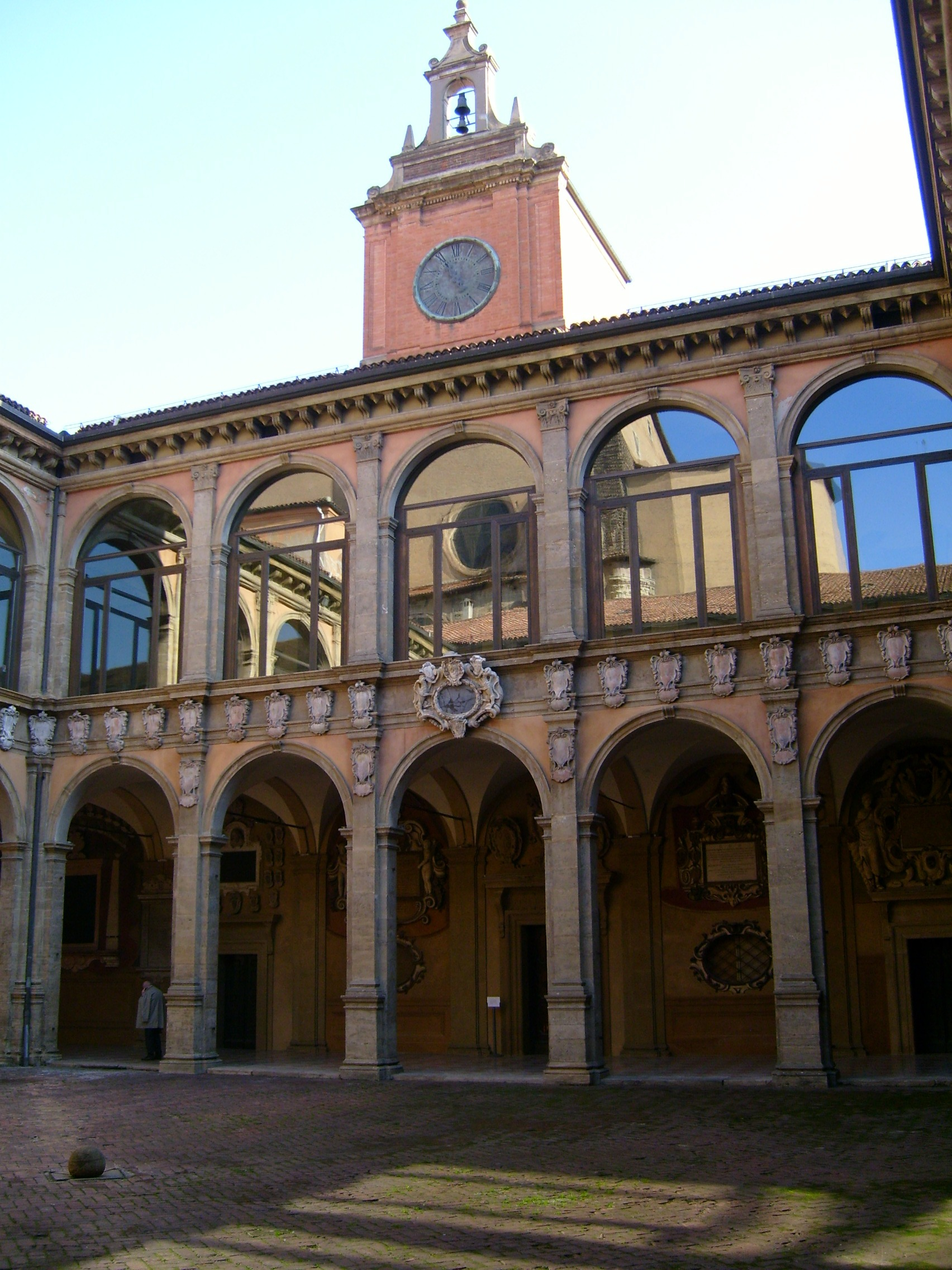 Palazzo dell'Archiginnasio (the wing with the Anatomical theatre, Bologna, Italy